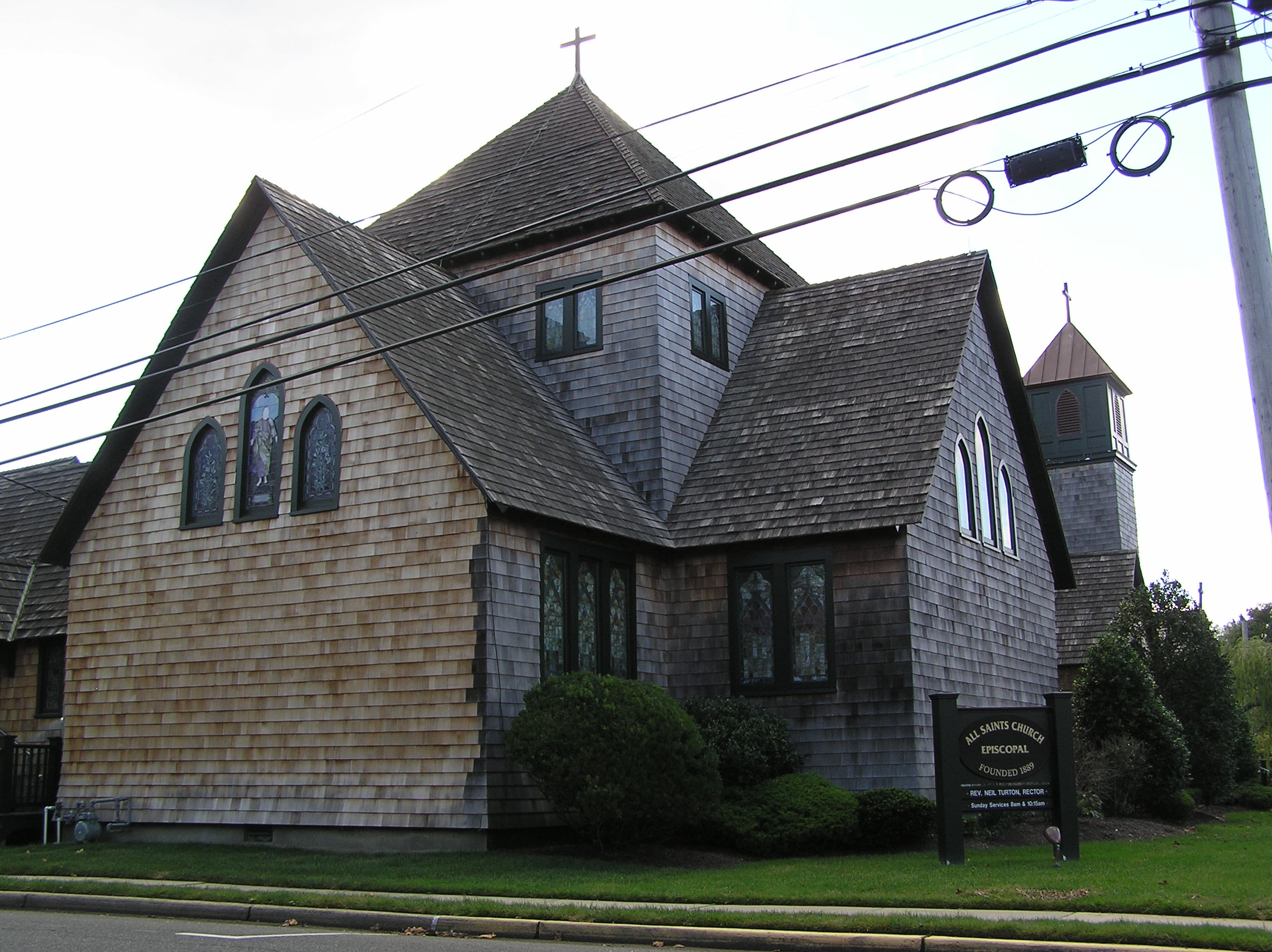 All Saints Church Espiscopal located at the intersection of Lake Avenue and Howe Street in the Bay Head Historic District, Bay Head, NJ.